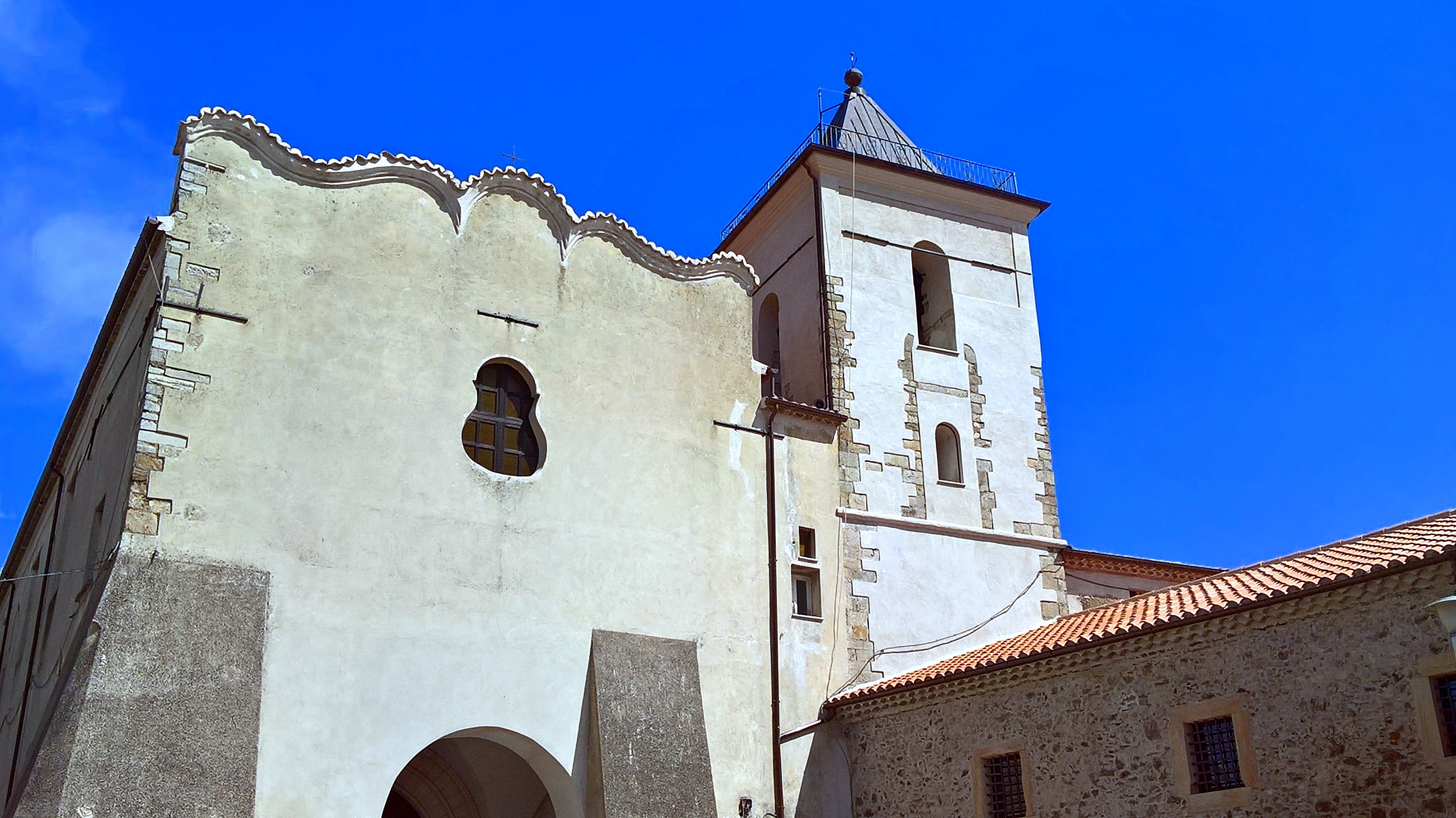 External face on Spezzano della Sila Sanctuary.